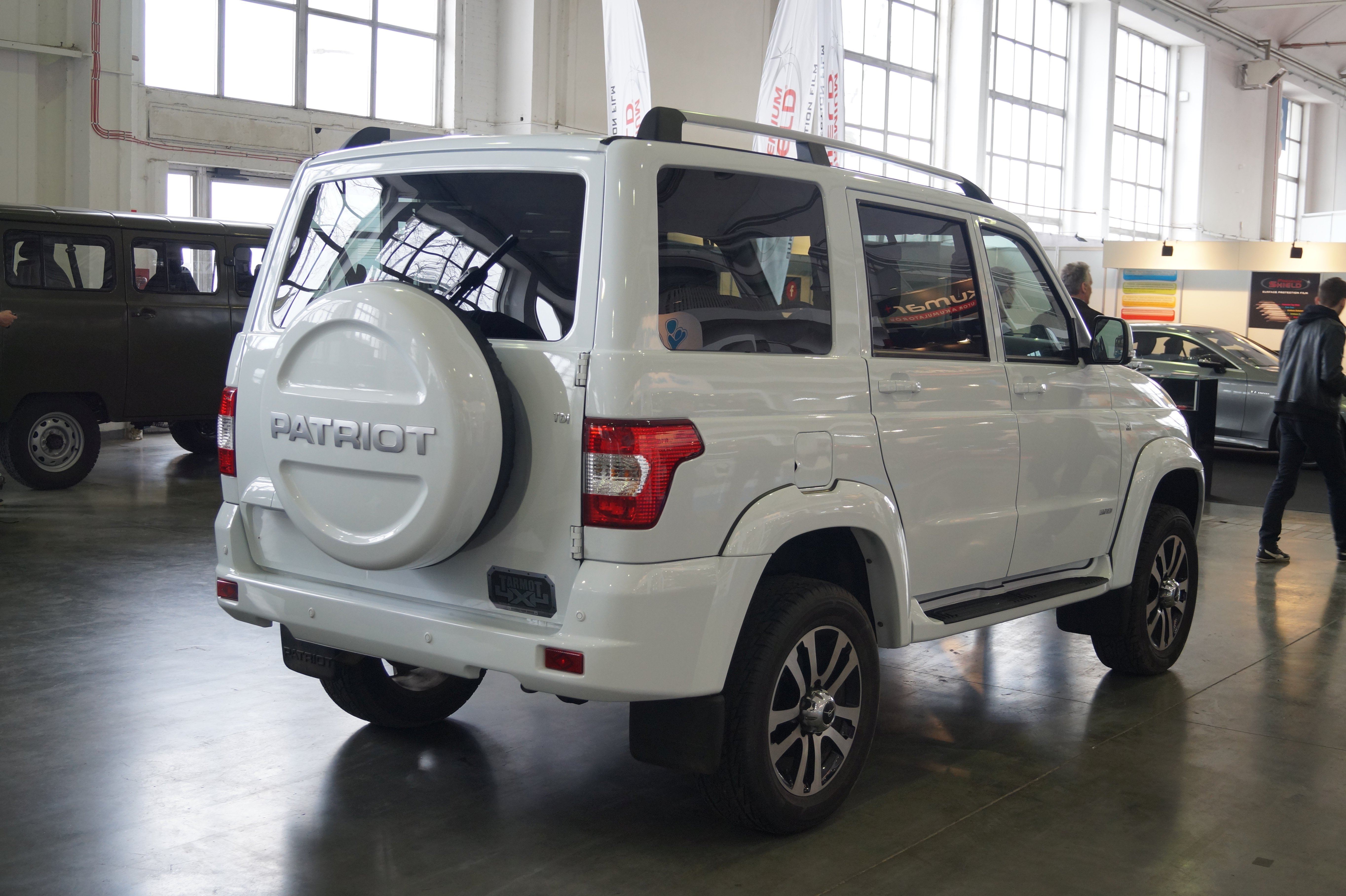 The making of this document was supported by Wikimedia Polska Association, within Wikigrant no. WG 2016-10. English | polski | +/− Tył UAZa Patriot na Motor Show Poznań 2016